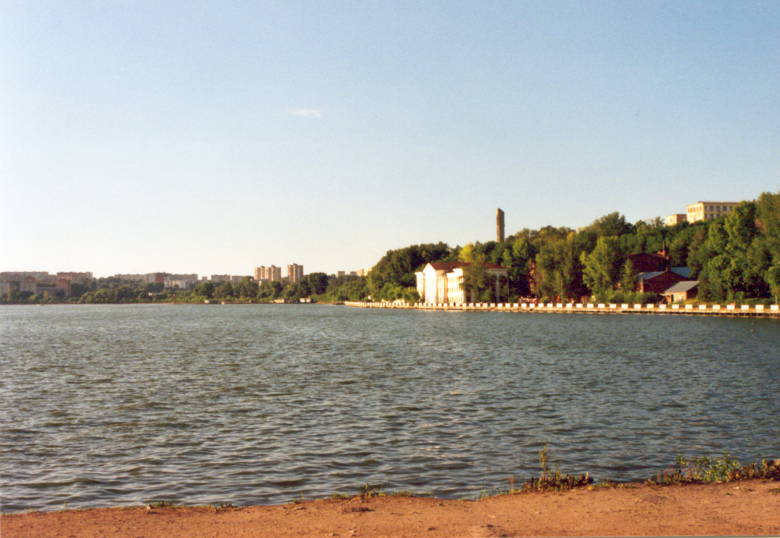 The lake view of Izhevsk.